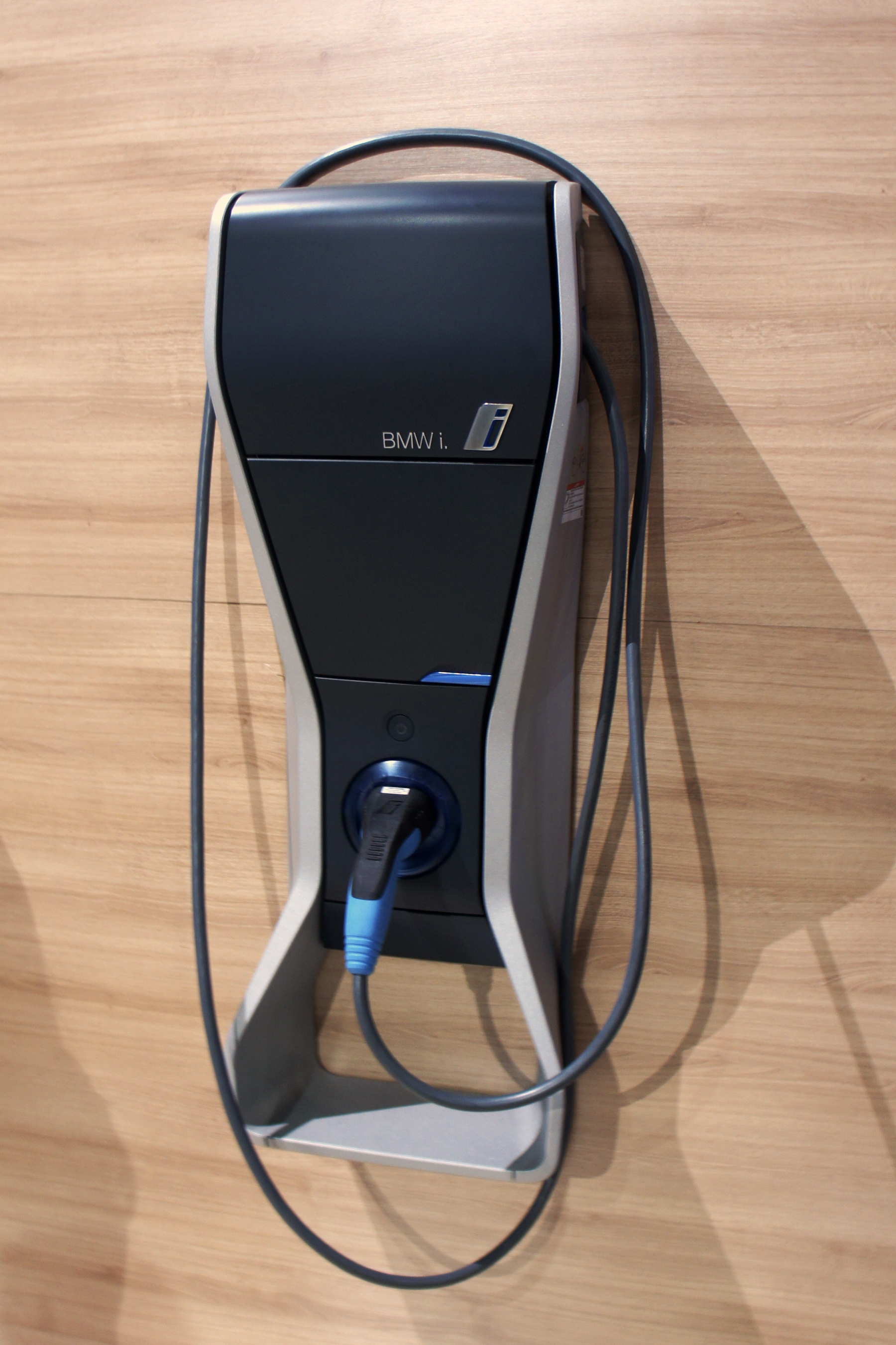 BMW i wall charger